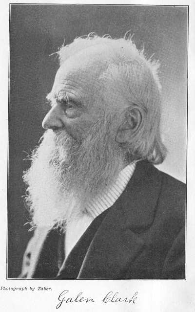 Galen Clark - Project Gutenberg eText 16572